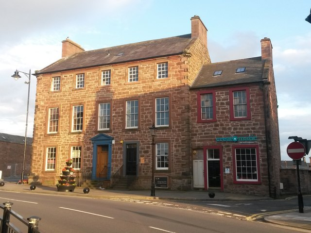 Annan: the Old Academy